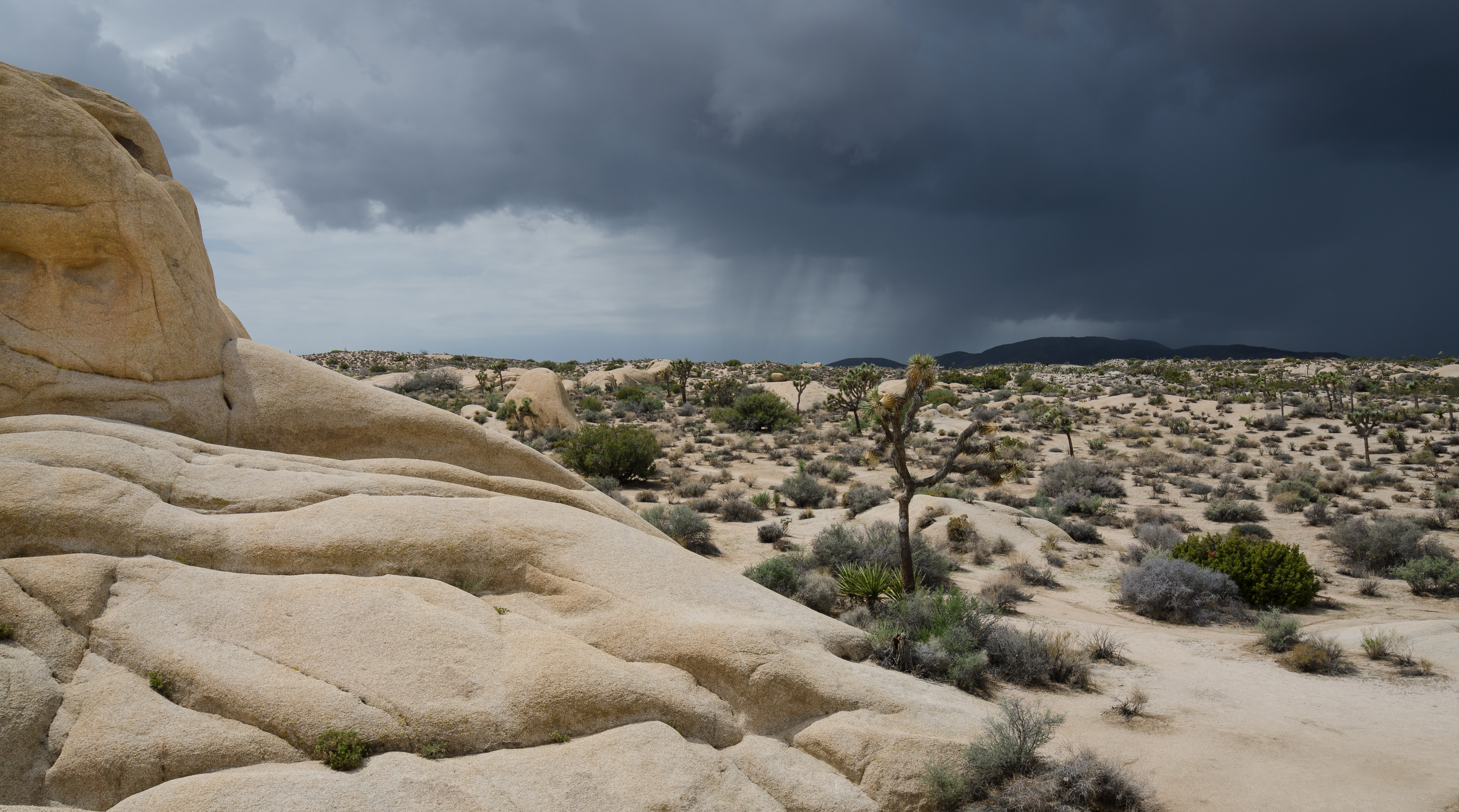 Joshua Tree National Park with apporaching thunderstorm front